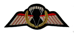 Para Wing operational Netherlands